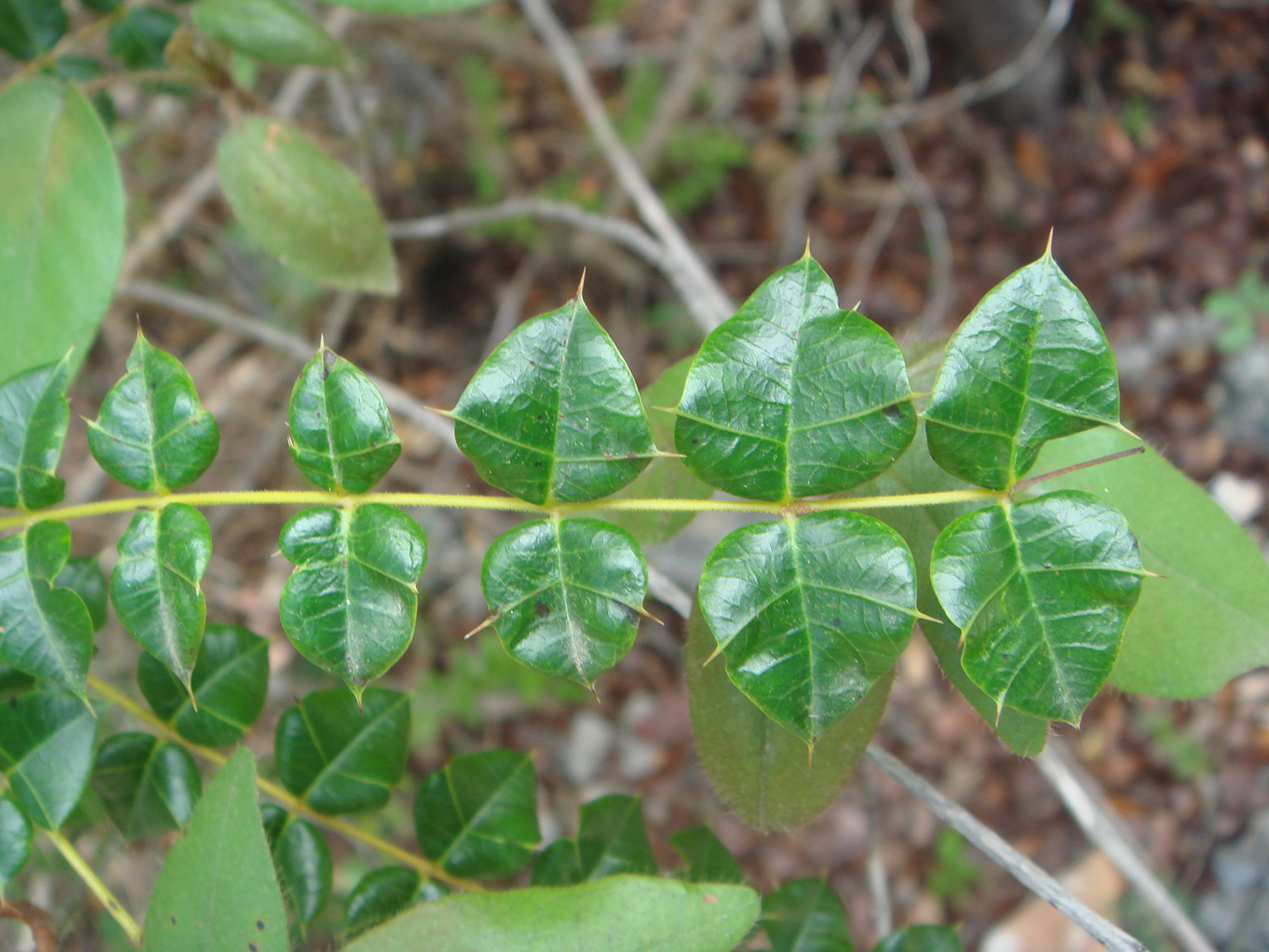 Leaves of Pra-Pra, The dry forest of Guánica, PR.